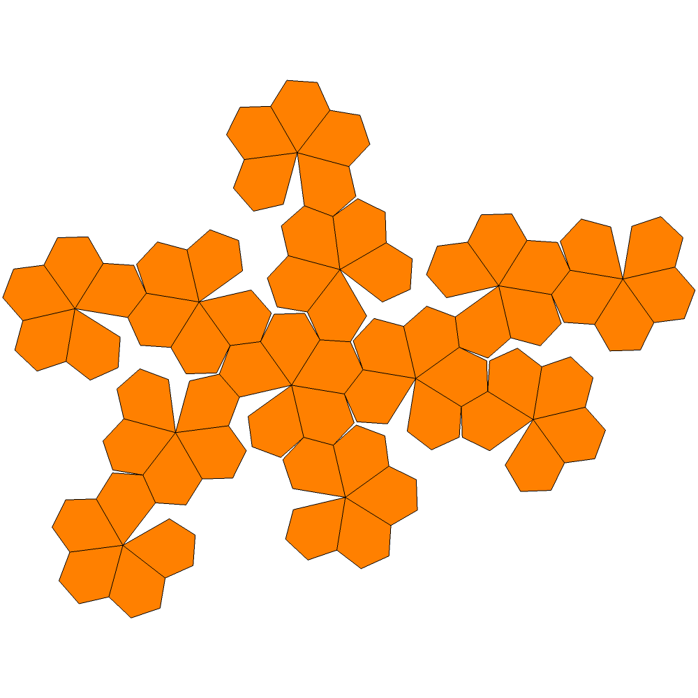 Pentagonal hexecontahedron net The copyright holder of this file, Robert Webb, allows anyone to use it for any purpose, provided that the copyright holder is properly attributed. Redistribution, derivative work, commercial use, and all other use is permitted. Attribution: Attribution must be given to Robert Webb's Stella software as the creator of this image along with a link to the website: A complimentary copy of any book or poster using images from the Software would also be appreciated where feasible. This work is free and may be used by anyone for any purpose. If you wish to use this content, you do not need to request permission as long as you follow any licensing requirements mentioned on this page.